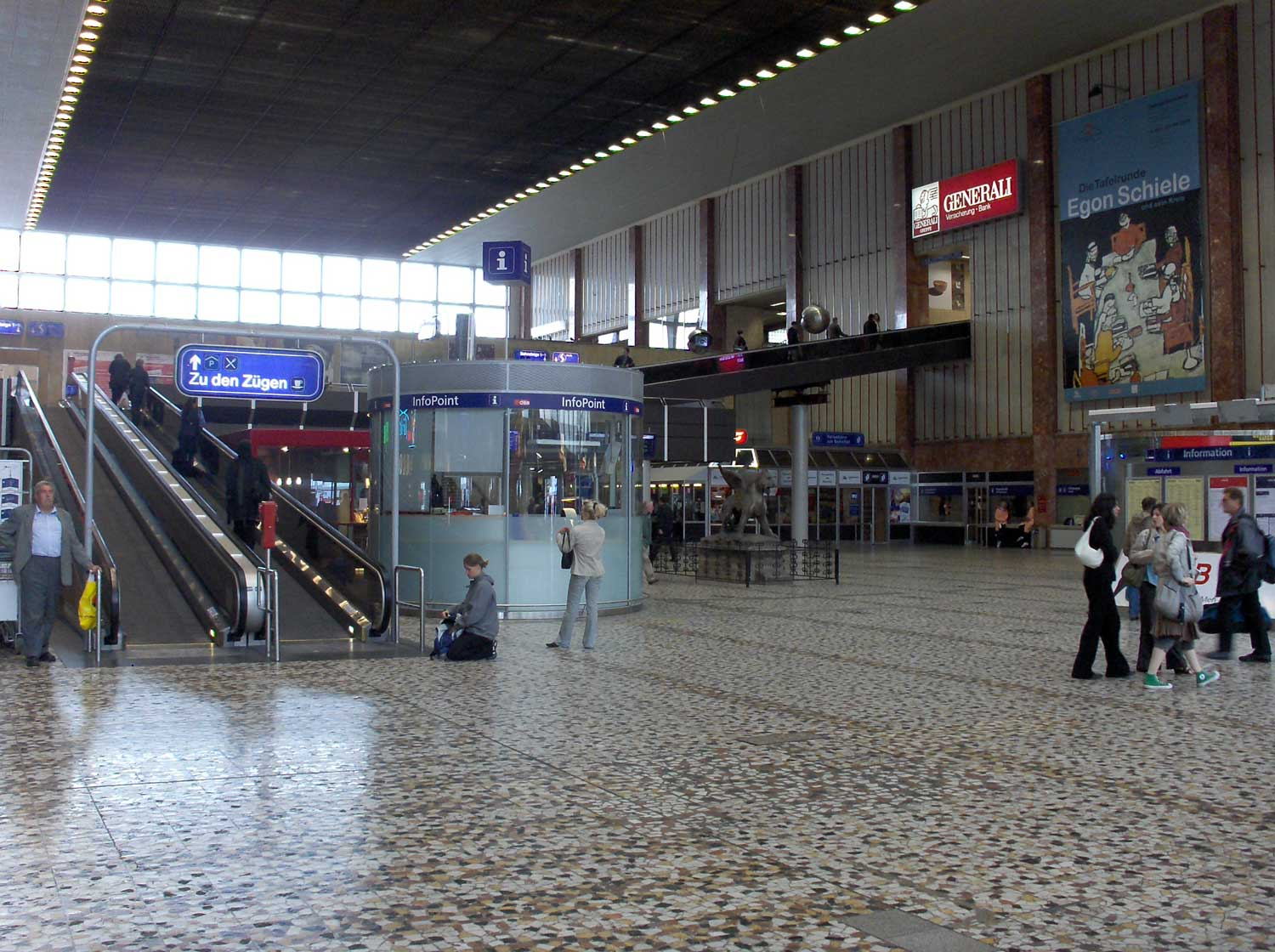 Interior of the Südbahnhof in Vienna